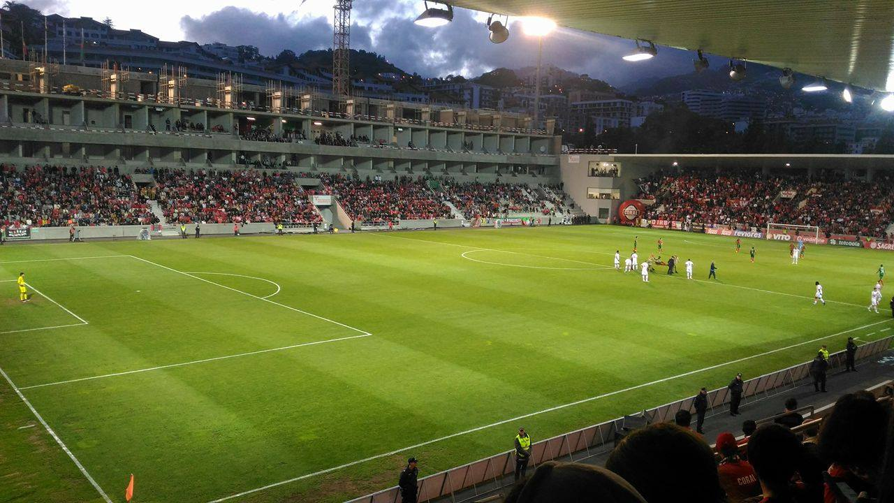 Taken during a game between CSMarítimo and SLBenfica